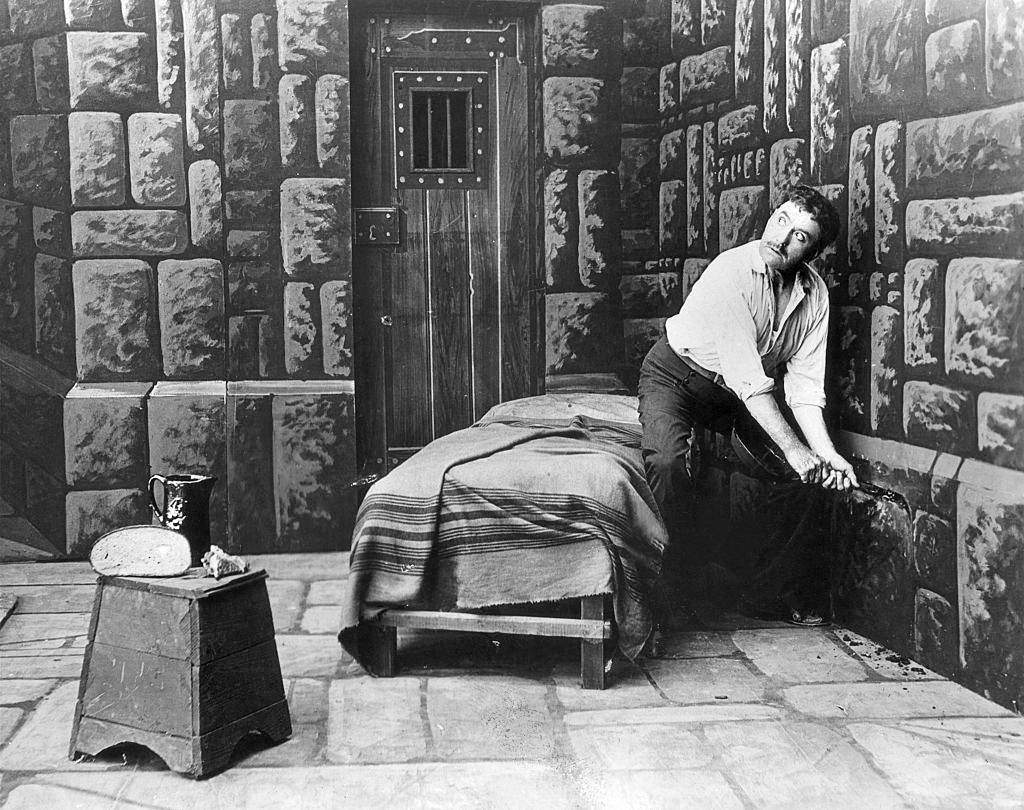 Promotional photo of James O'Neill as Edmond Dantes in the 1913 film The Count of Monte Cristo